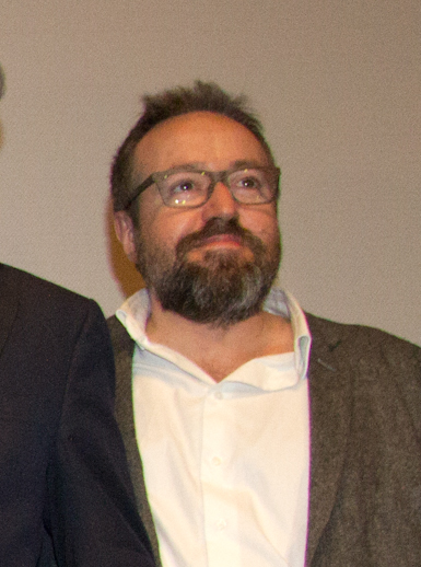 Introduction of economic proposal by Ciudadanos party.